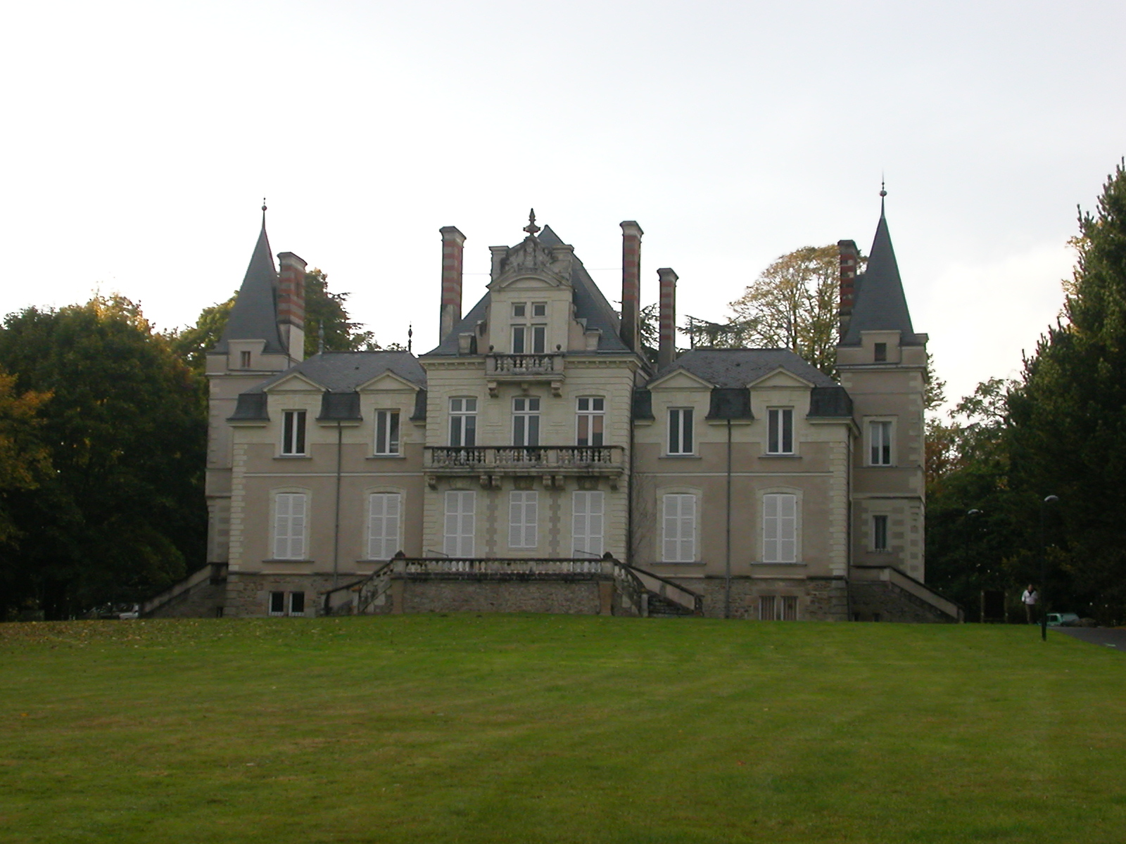 Tertre castle in the campus of the University of Nantes